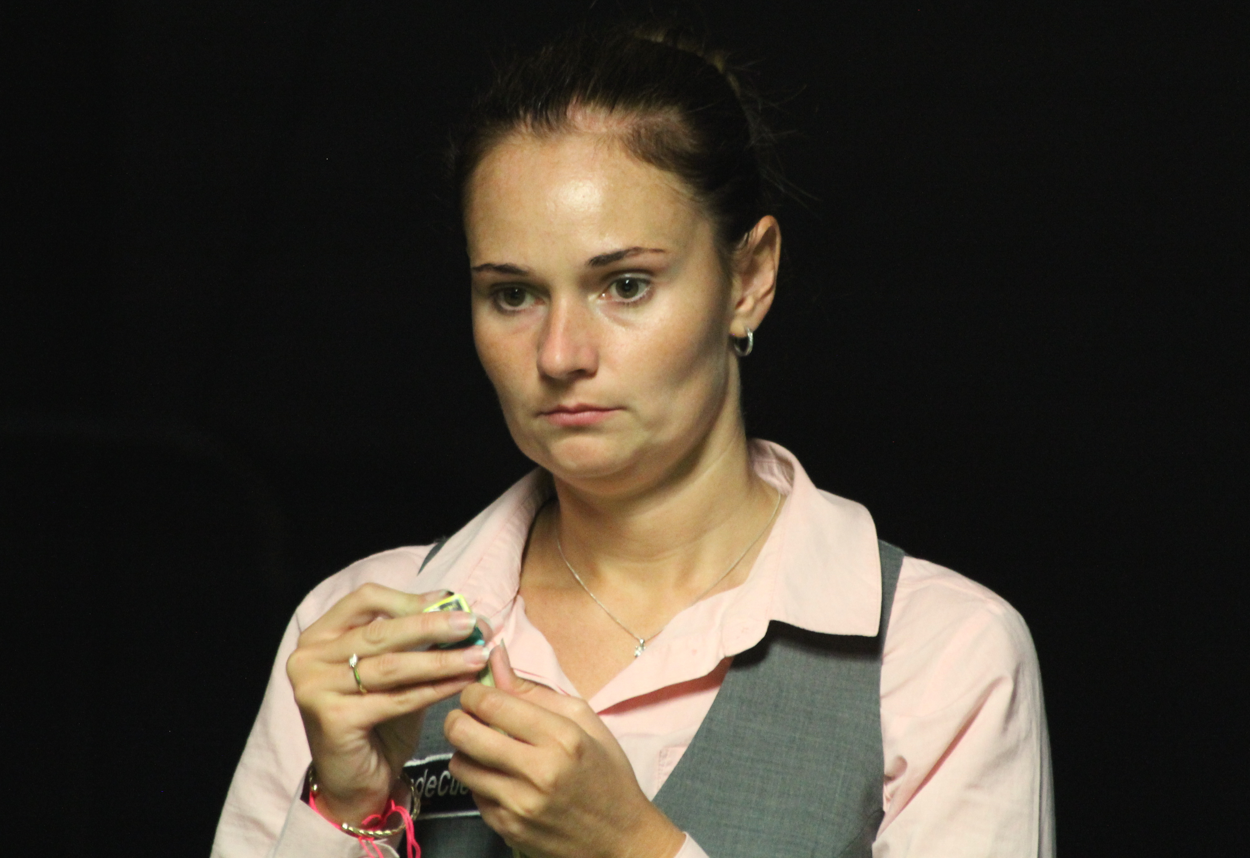 Reanne Evans at the Paul Hunter Classic 2017